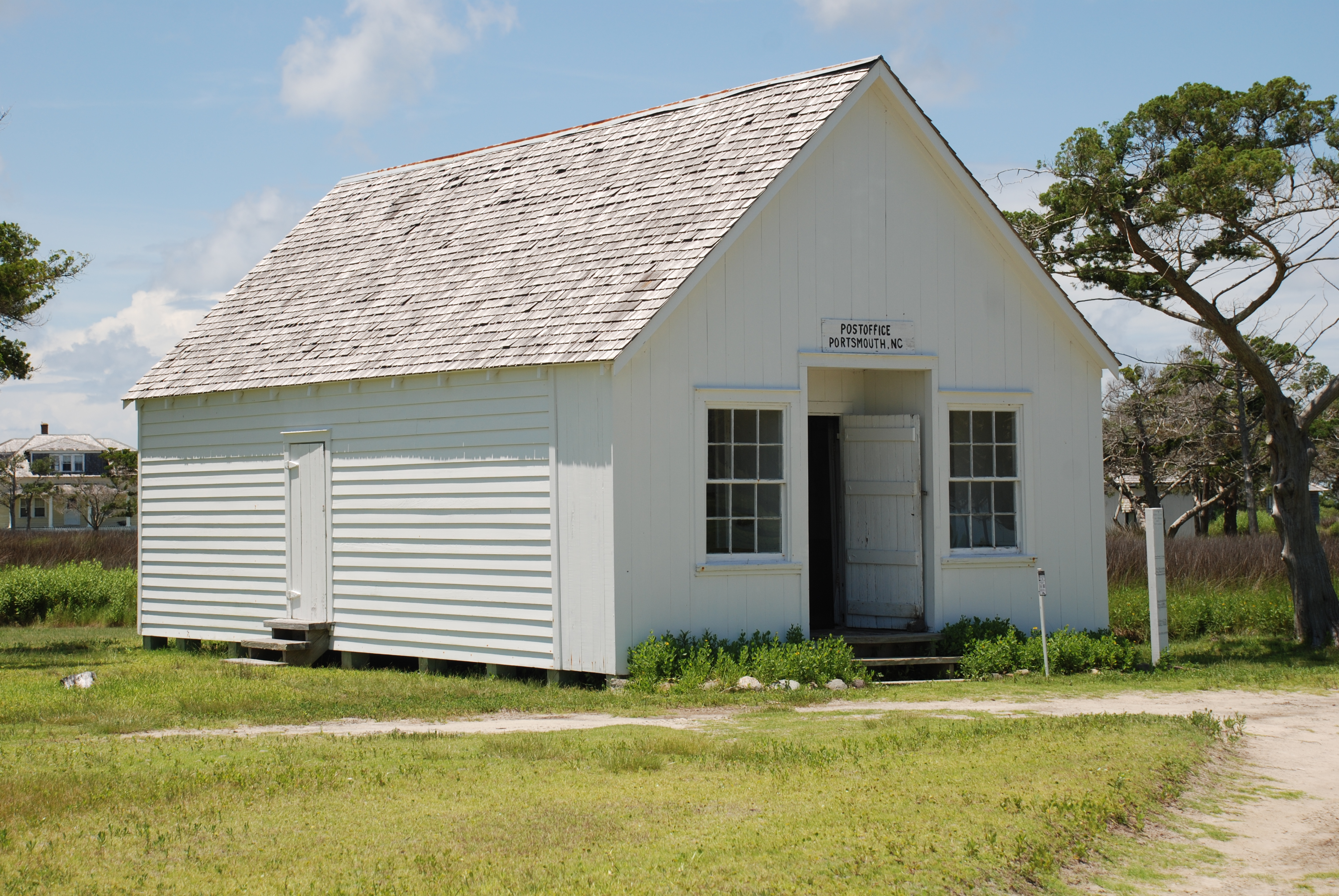 Portsmouth, North Carolina an abandoned village on North Core Banks: Post Office and Genaral Store. Built with warehouse adjoining, warehouse no longer standing. A gathering place for people of Portsmouth. Mail was brought to Portsmouth from Ocracoke and Morehead City by boat; Alfred Dixon, succeeded by his son, Carl Dixon, got the mail by skiff and brought it to the Post Office by wheelbarrow. Annie Dixon Salter and her daughter Dorothy Salter were the last two post masters[1].